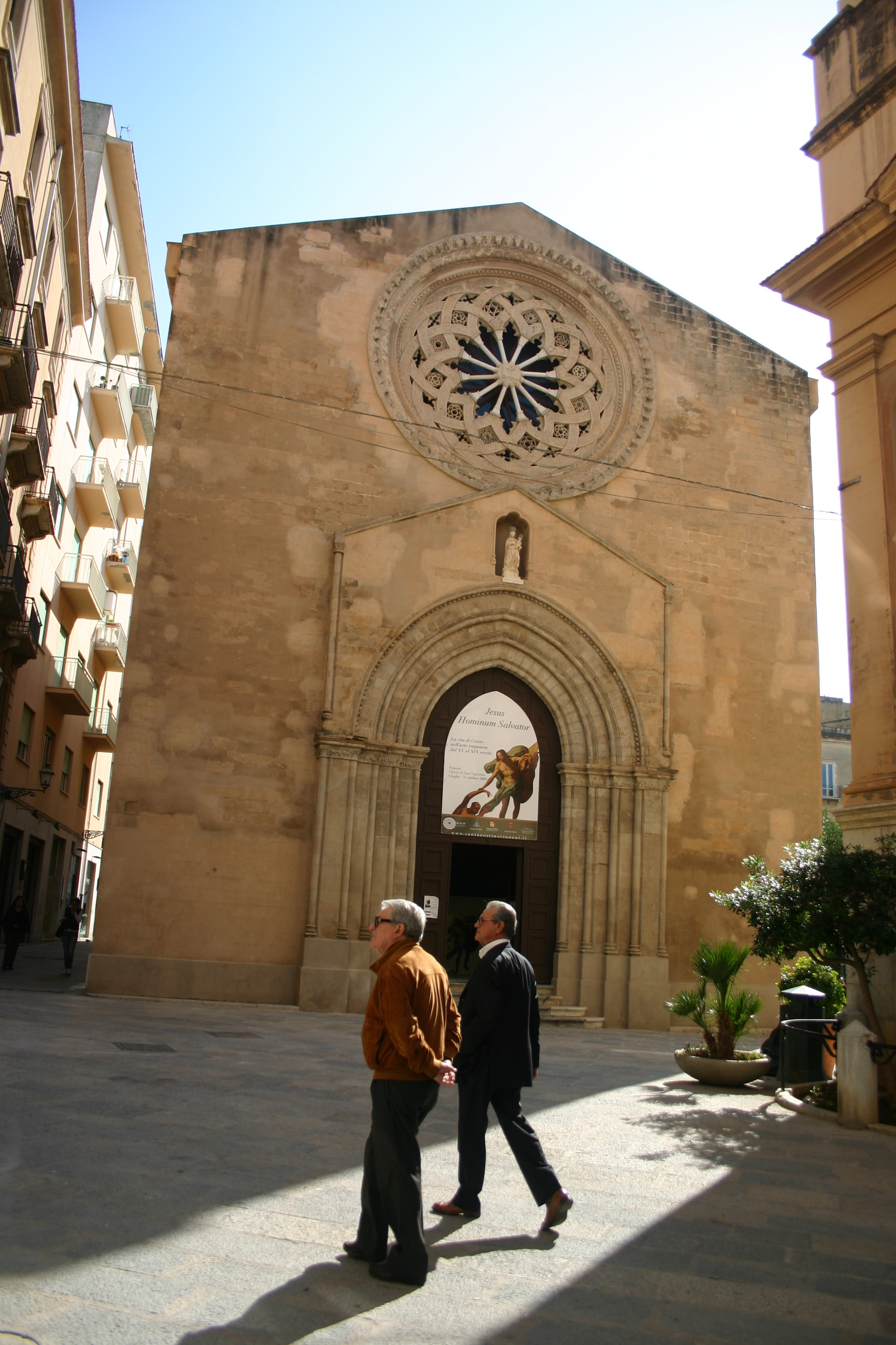 Church San Agostino, Trapani